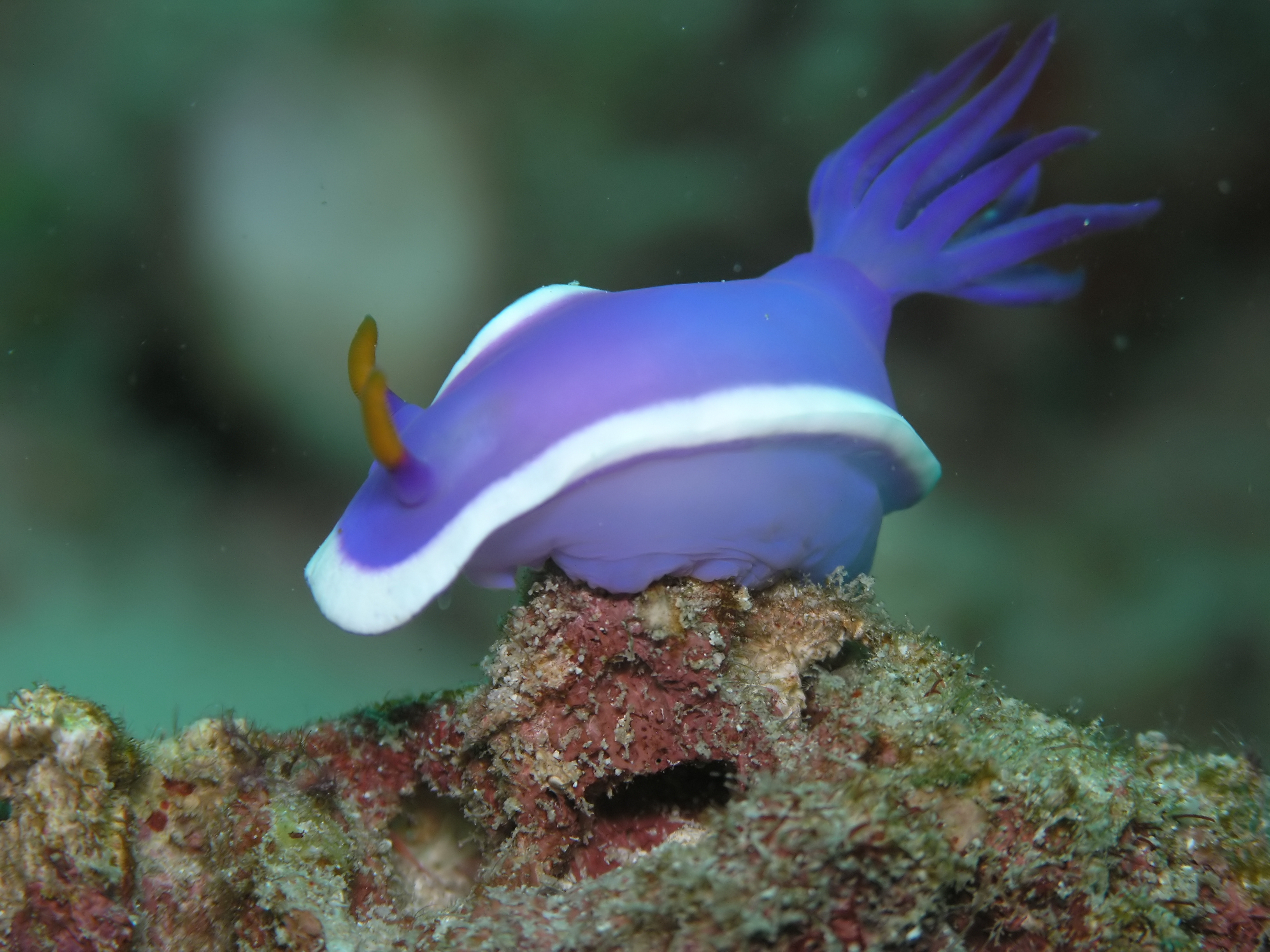 Image of Nudibranch, Hypselodoris cf. bullociki. Taken at Sipadan, Borneo, Malaysia.